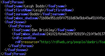 Screenshot of a FOAF RDF/XML file in Emacs